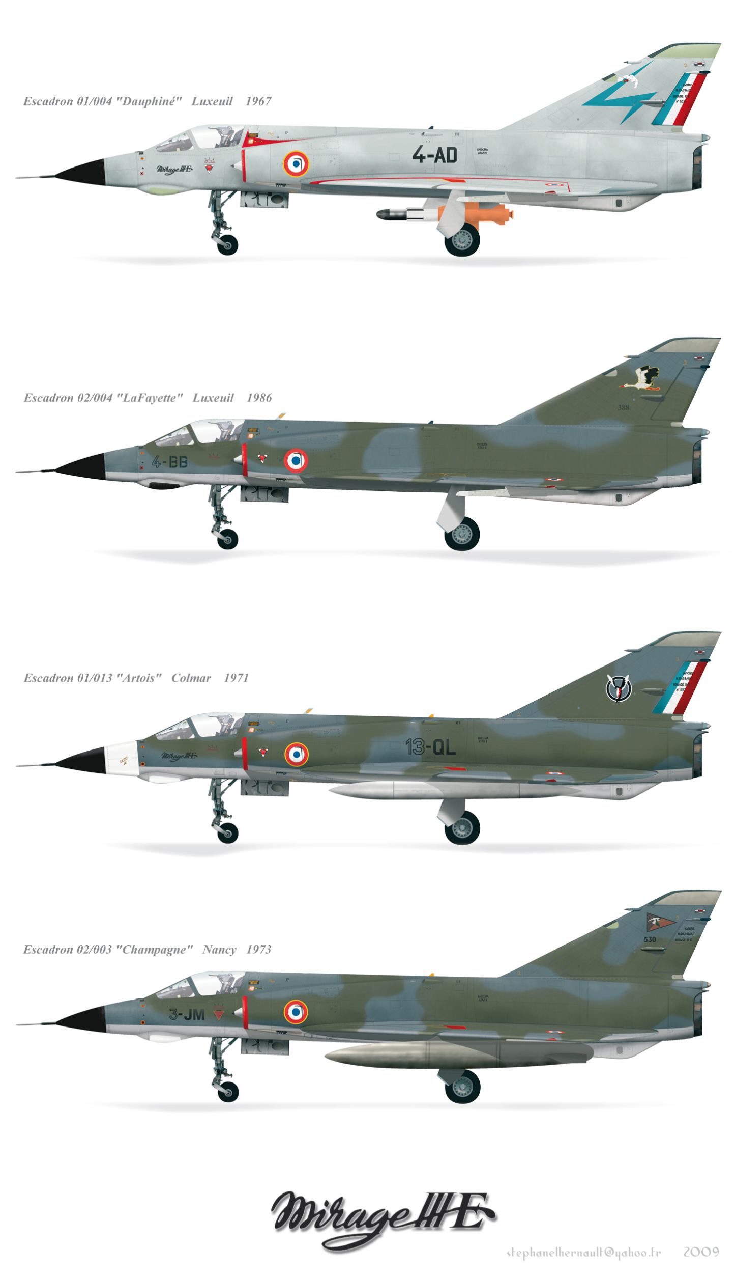 Mirage III E family French Air Force